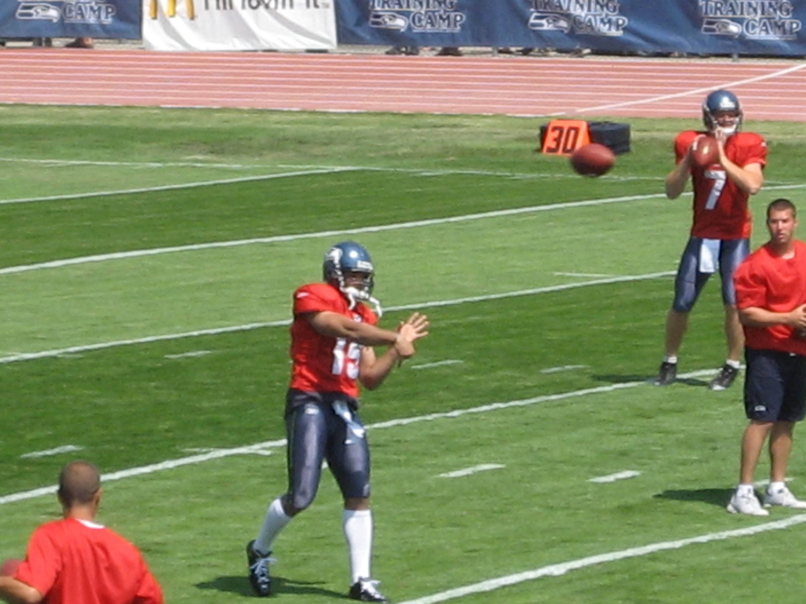 Picture of Seahawks Practice Scrimage at Eastern Washington University, Cheney Washington. Seneca Wallace warms up with rookie QB prospect, Travis Lulay of Montana State.